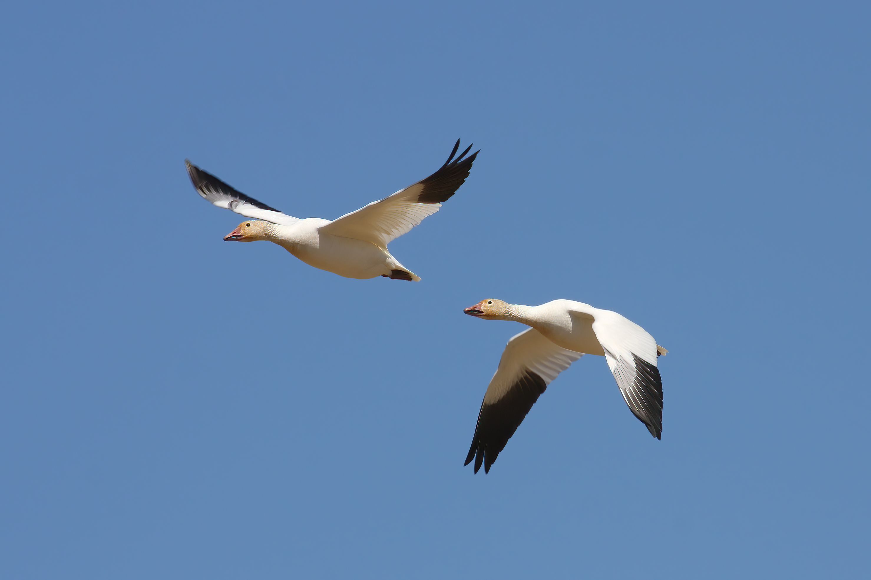 Snow geese (Anser caerulescens), Cap Tourmente National Wildlife Area, Quebec, Canada